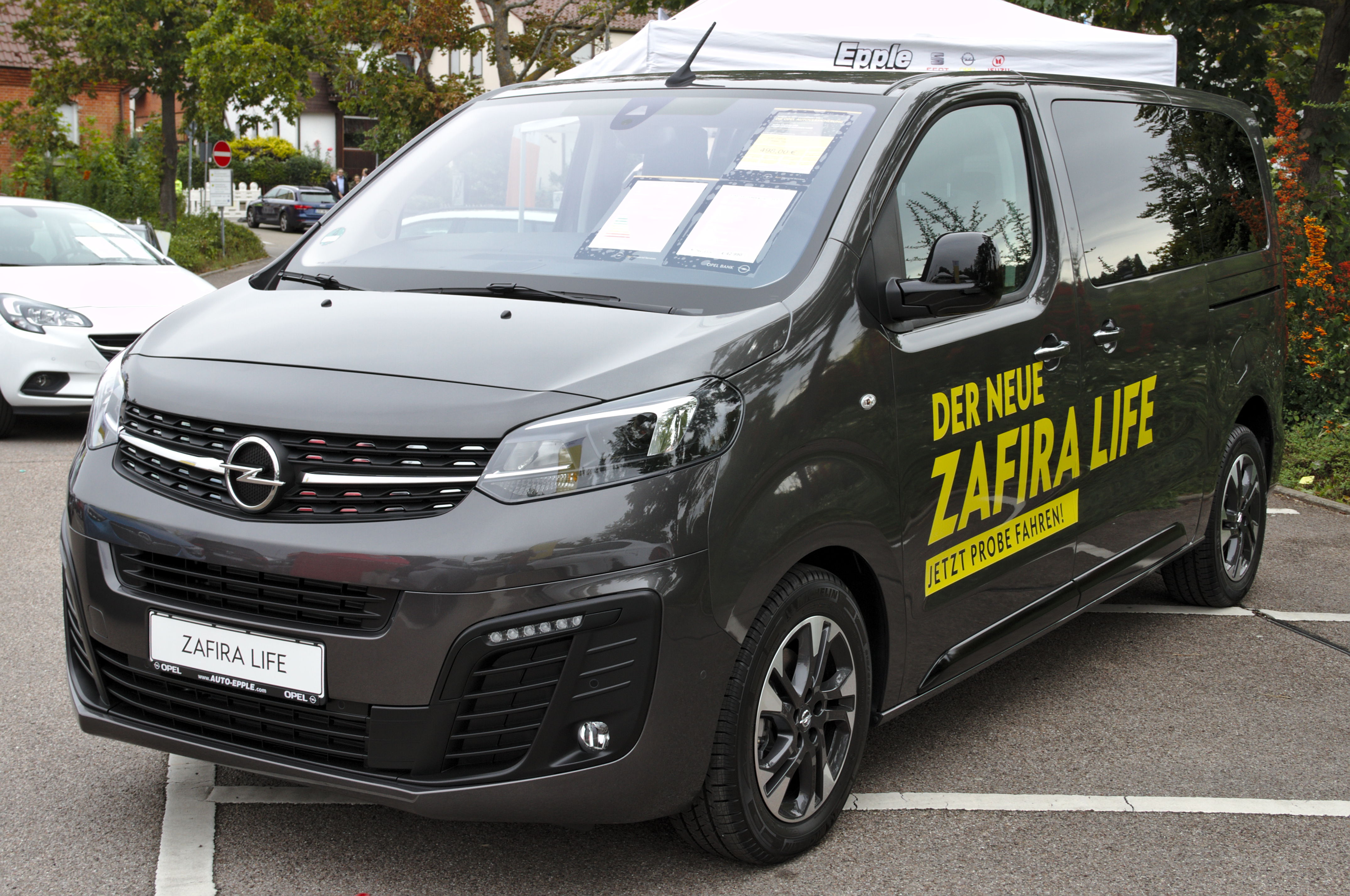 Opel Zafira Life M at Leonberger Autoschau 2019